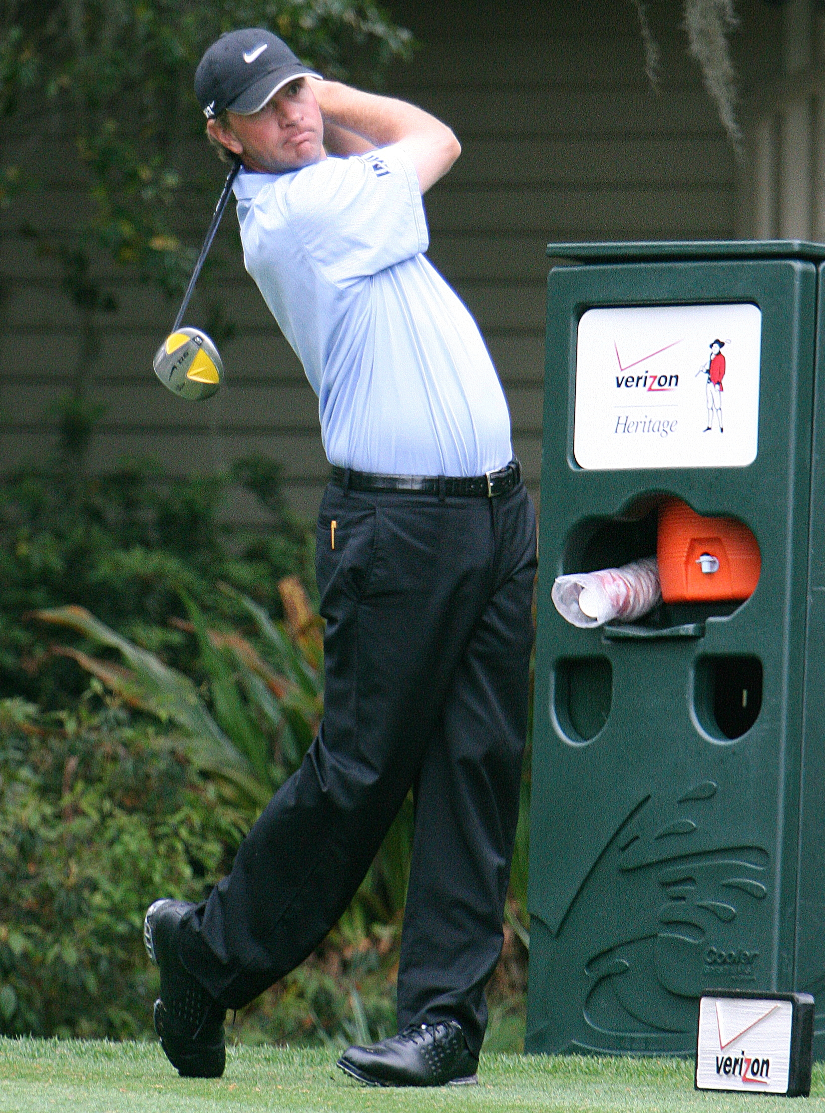 An image of golfer Lucas Glover taking a swing in 2007.